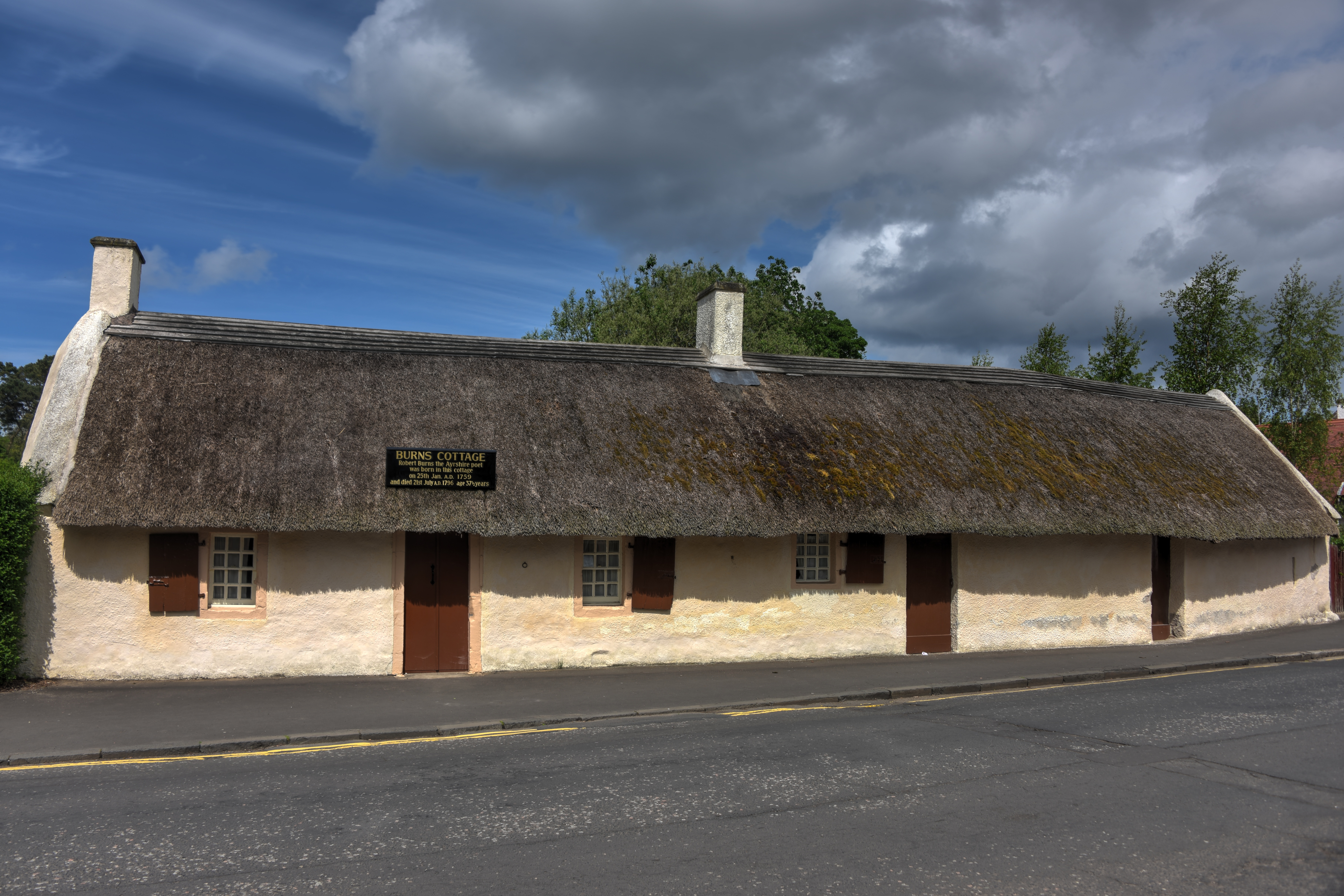 Robert Burns was born in this cottage in Alloway in 1759.